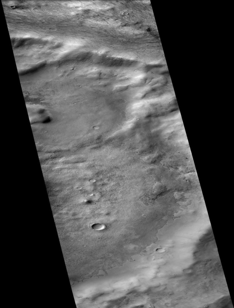 Eastern portion of Wells Crater, as seen by cts